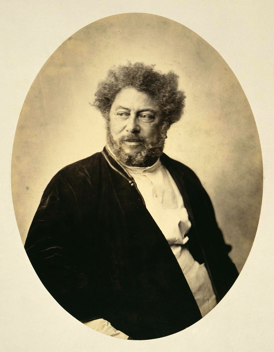 Alexandre Dumas père in Russian costume.